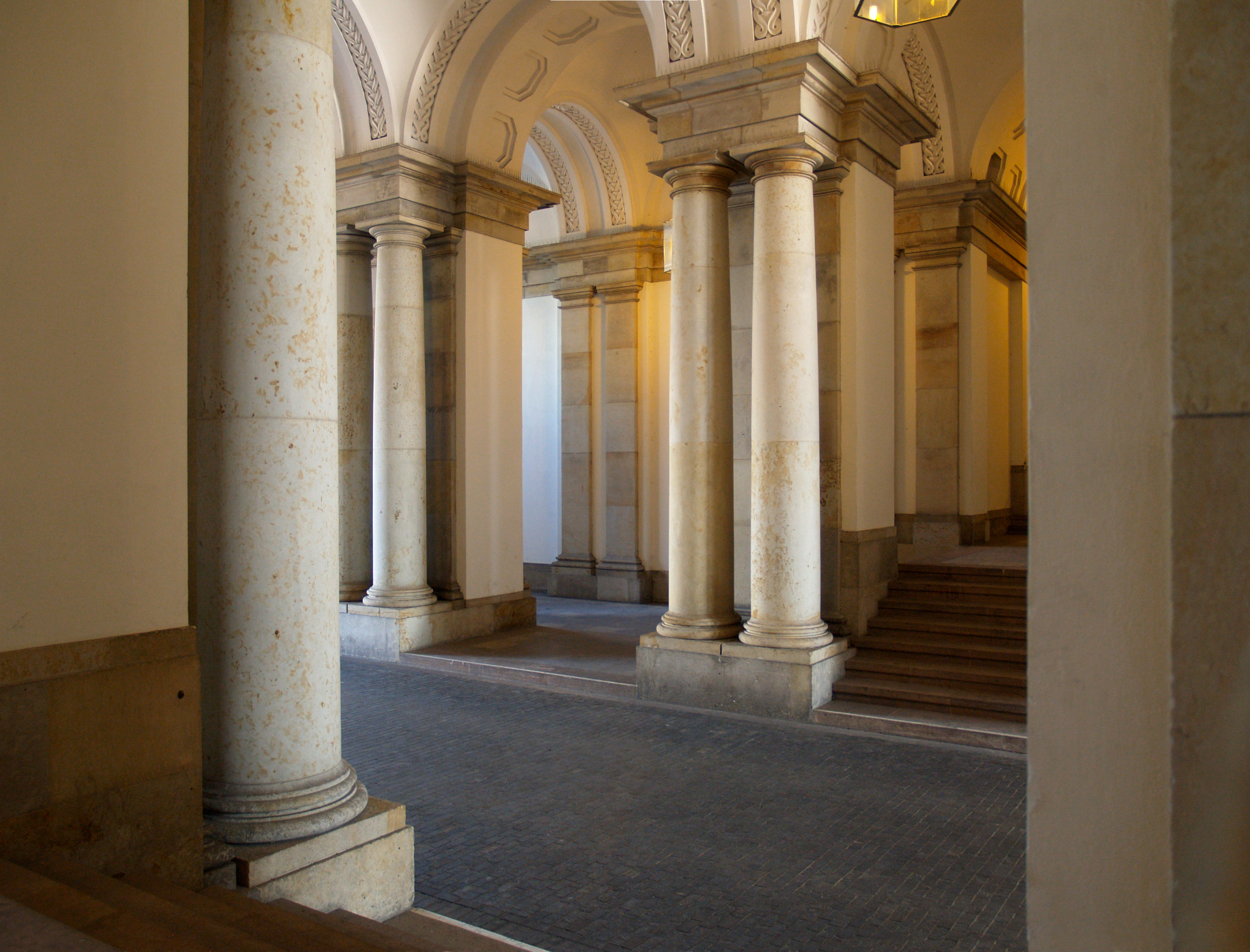 King´s gate, royal palace, copenhagen, 1803-1828. Architect: c.f. hansen, 1756-1845. The main gate of c.f.hansen's christiansborg palace as it has survived within the fabric of its early 20th century replacement.